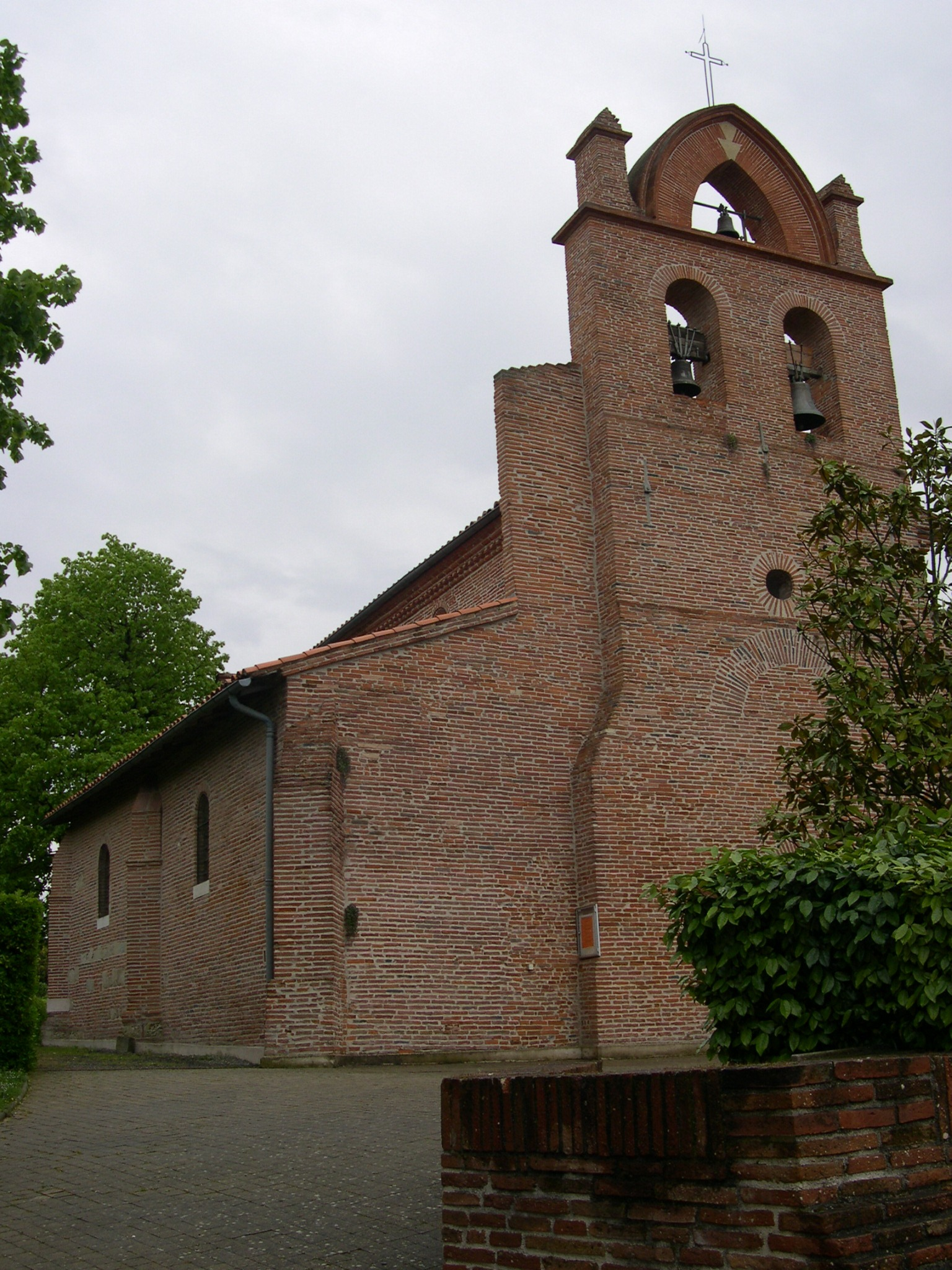 Church of Vieille-Toulouse (Haute-Garonne, Midi-Pyrénées, France). Lateral view.